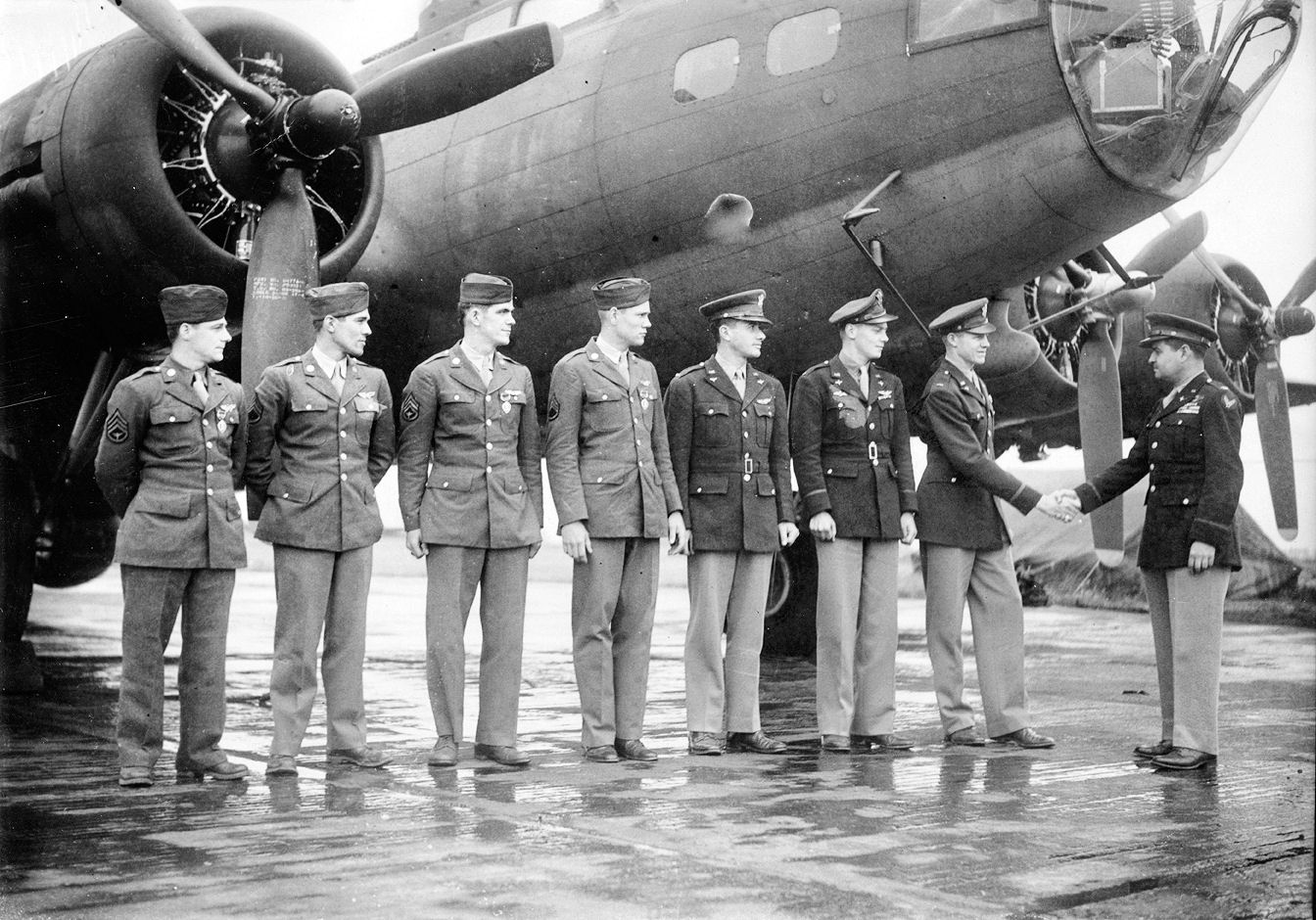 Colonel Curtis LeMay officially congratulates a bomber crew of the 306th Bomb Group in front of their B-17 Flying Fortress. Passed as censored 2 Jun 1943. Printed caption on reverse: 'One Flying Fortress Destroyed Eleven F.W.190's. O.P.S. On right, Col. Curtis LeMay, [censor struck out: a Combat Wing Commanding Officer] is seen congratulating members of the crew, they are, left to right; Sergeants Adrian, Buchanan, Warminski, Gray, Lieutenants Barberis, McCallum and Smith. 2/6/43. They shot these enemy planes down before being shot down themselves after a raid on Germany and were rescued from the sea by a British Ship after thirty hours on the water.' On reverse: Ministry of Information, Daily Sketch, US Army Press Censor ETO and US Army General Section Press & Censorship Bureau [Stamps].